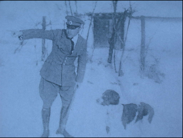 officer Hristo Iliev and his dog "Focker" (named after the german ww2 plains FW)